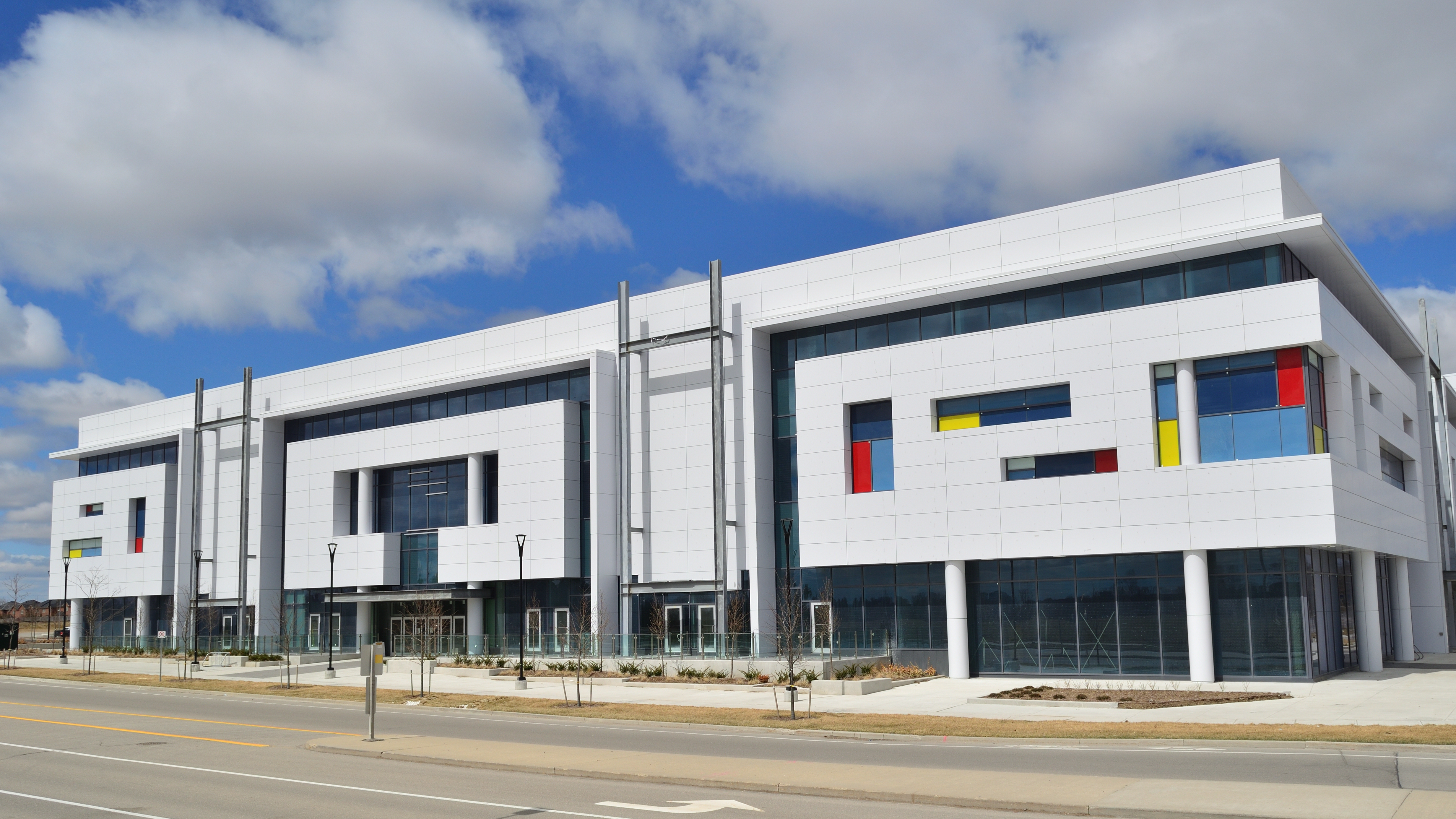 King Square Shopping Centre